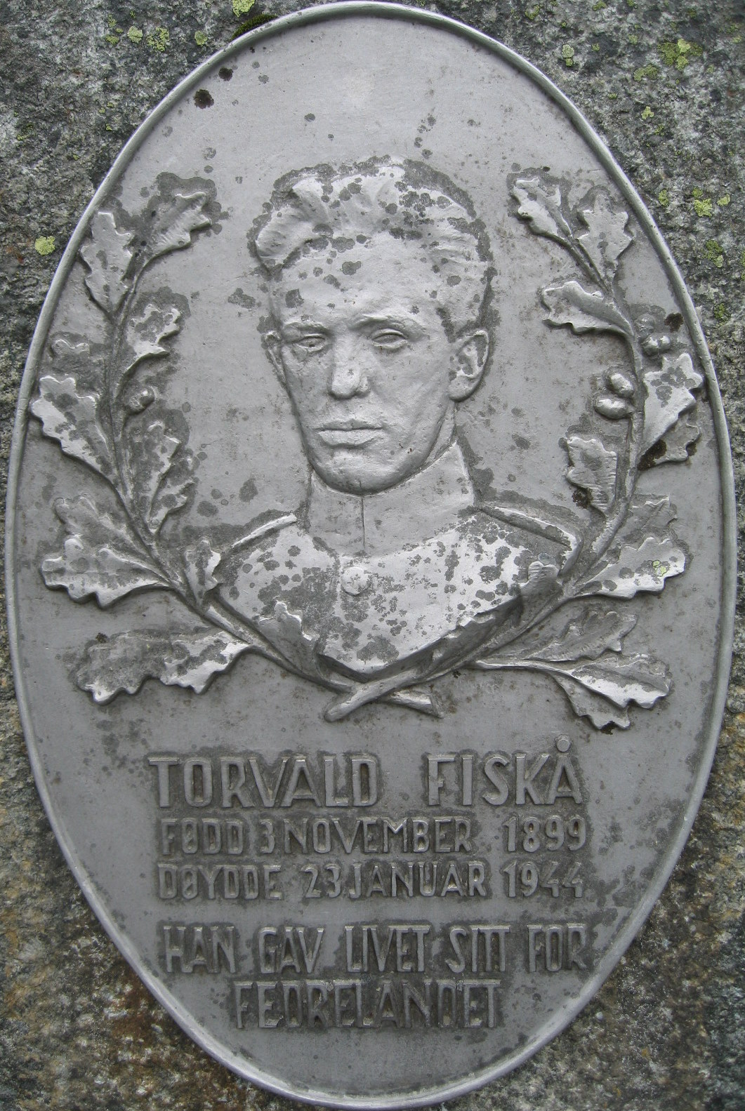 Memorial for Torvald Fiskå in Fiskå, Rogaland, Norway